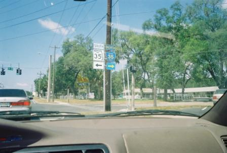 The northern terminus of Florida State Road 35 and southern terminus of Marion County Road 35 at the westbound intersection of Florida State Road 40 in Silver Springs, Florida, east of Ocala, Florida.